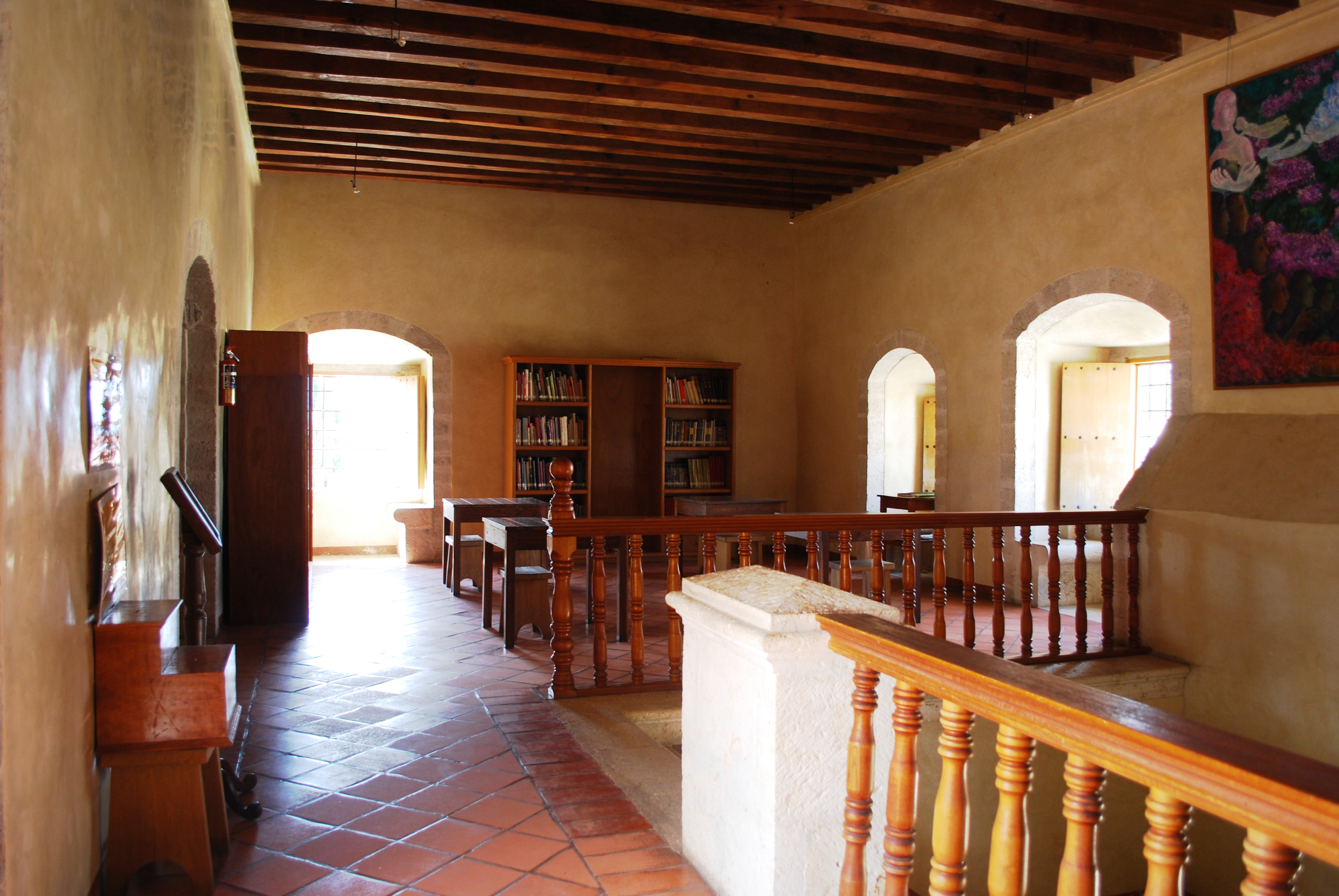 Hall in the upstairs of the monastery/museum of Ocotlan de Morelos, Oaxaca, Mexico